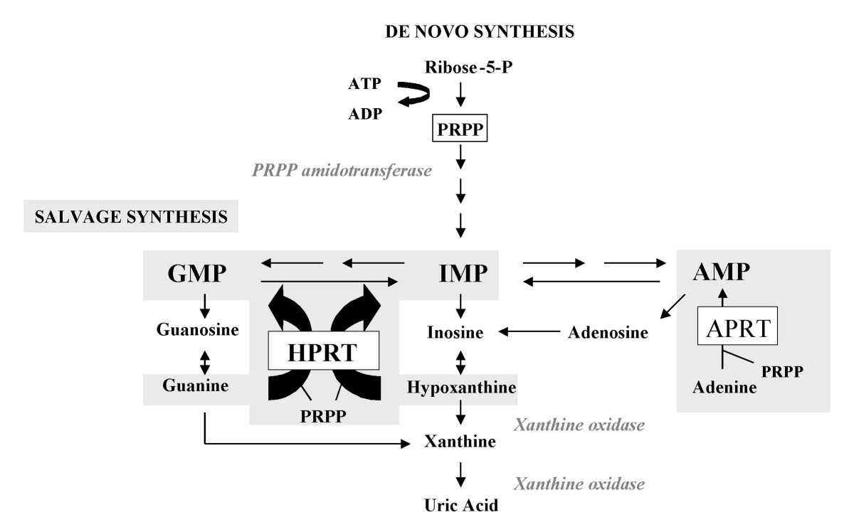 Purine metabolism. The metabolic scheme shows the first and rate-limiting step of de novo purine synthesis mediated by the enzyme 5'-phosphoribosyl-1-pyrophosphate (PRPP) amidotransferase, and the salvage pathway mediated by hypoxanthine phosphorybosyltransferase (HPRT) and adenine phosphorybosyltransferase (APRT). The de novo synthesis occurs through a multi-step process and requires the contribution of four aminoacids, one PRPP, two folates and three ATP to synthesize an inosine monophosphate (IMP) molecule. HPRT catalyzes the salvage synthesis of inosine monophosphate (IMP) and guanosine monophosphate (GMP) from the purine bases hypoxanthine and guanine respectively, utilizing PRPP as a co-substrate. The HPRT defect results in the accumulation of its substrates, hypoxanthine and guanine, which are converted into uric acid by means of xanthine oxidase. Elevated APRT activity may also contribute to purine overproduction.